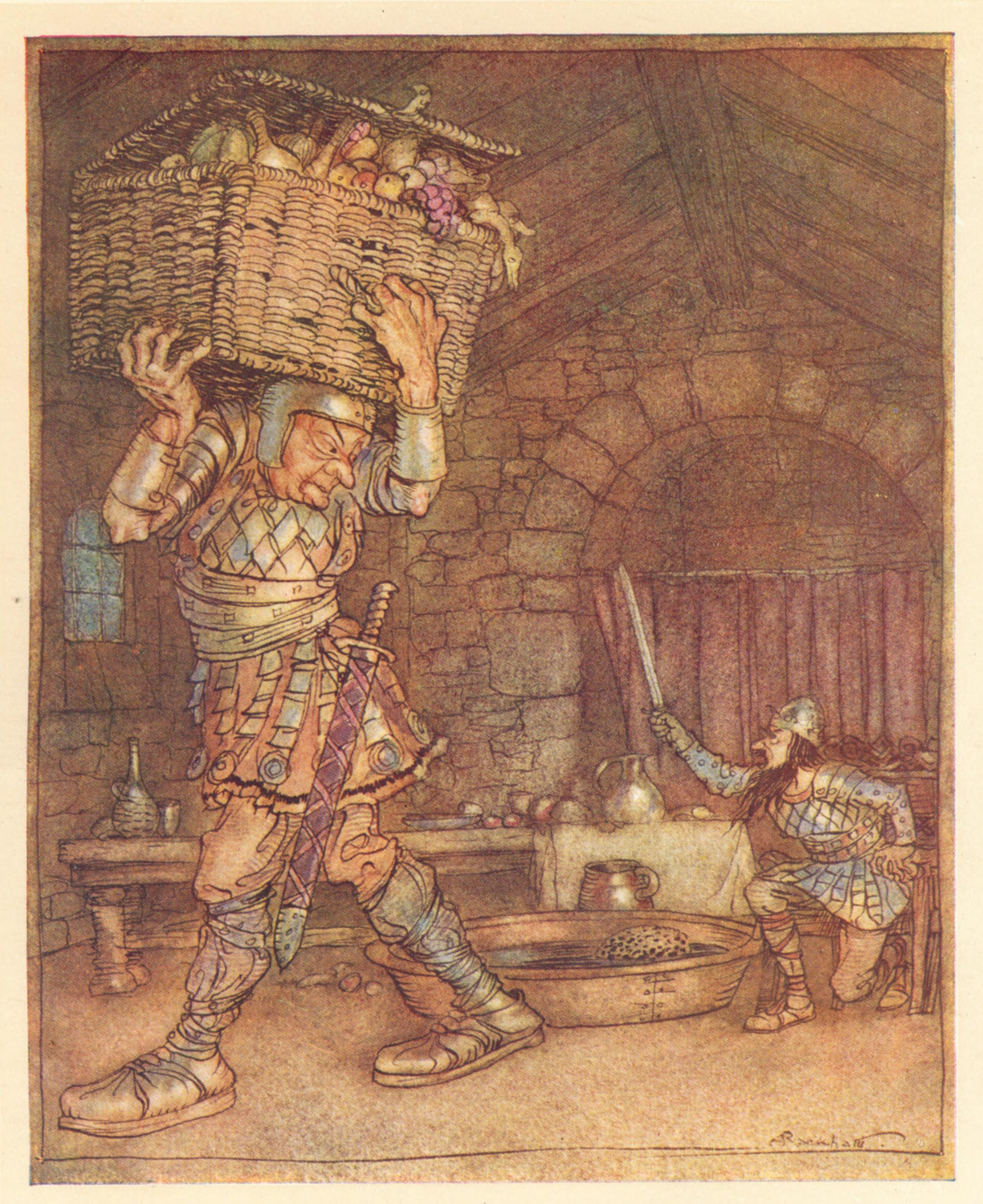 "And thereupon King Lludd went after him and spoke unto him thus. "Stop, stop", said he". From the Welsh prose tale "Lludd and Llefelys", from The Allies Fairy Book (1916) by Arthur Rackham (link to page).